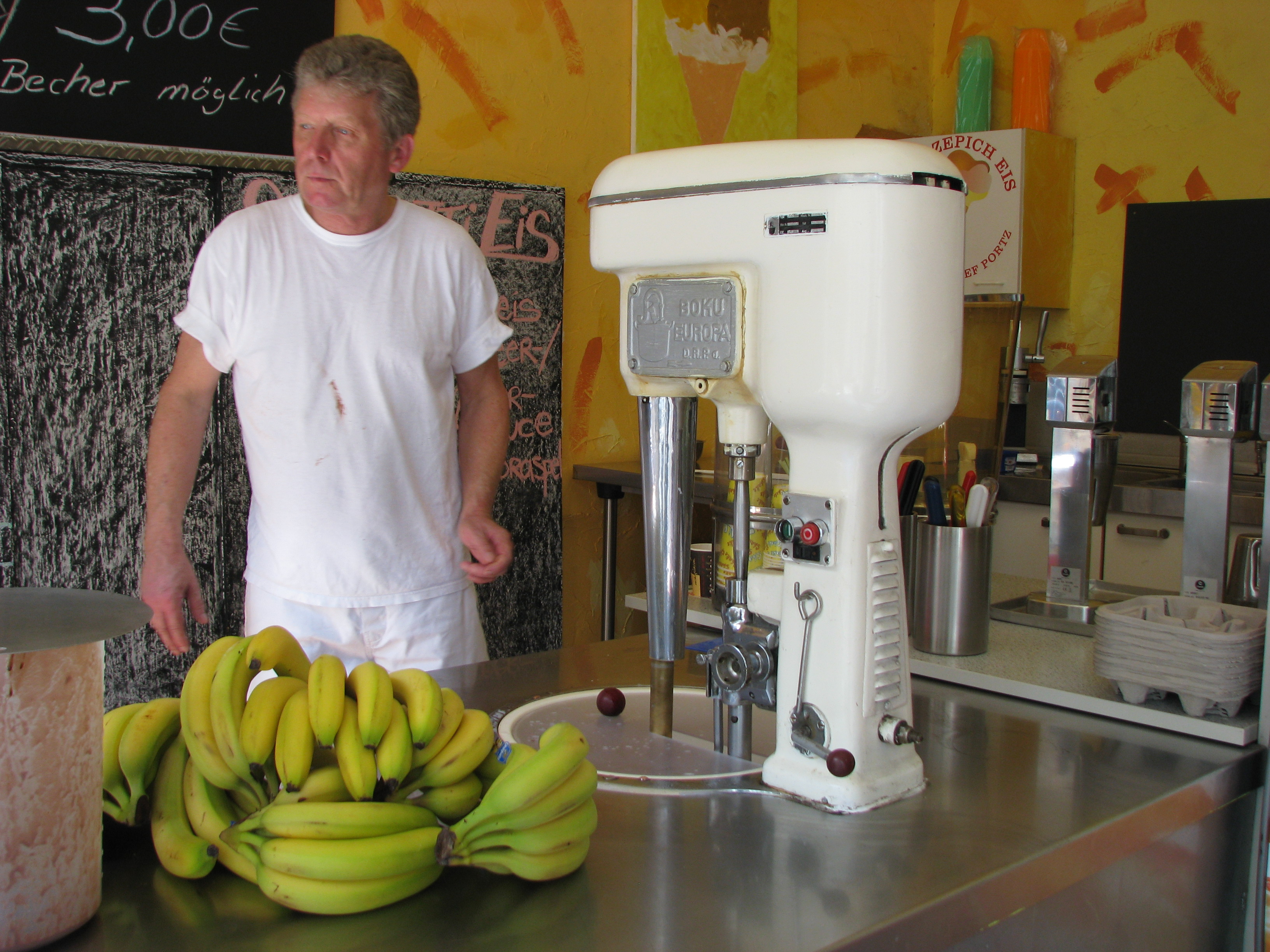 Franz-Josef Portz at the ice cream maker Boku Europa at Delzepich Ice in Aachen. Willi Delzepich died in November 2006, after he had operated for over 40 years a milk and ice cream shop with cult status in the Bismarckstreet. Today successors operate his stores in Aachen and Hamburg.